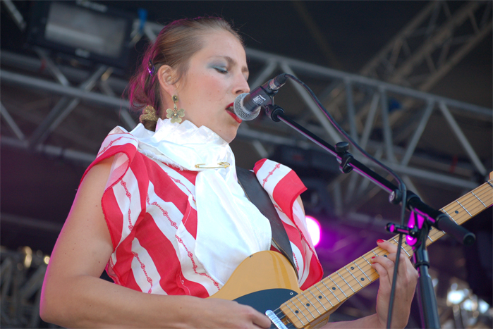 Jenny Wilson in Flow Festival in Helsinki, Finland